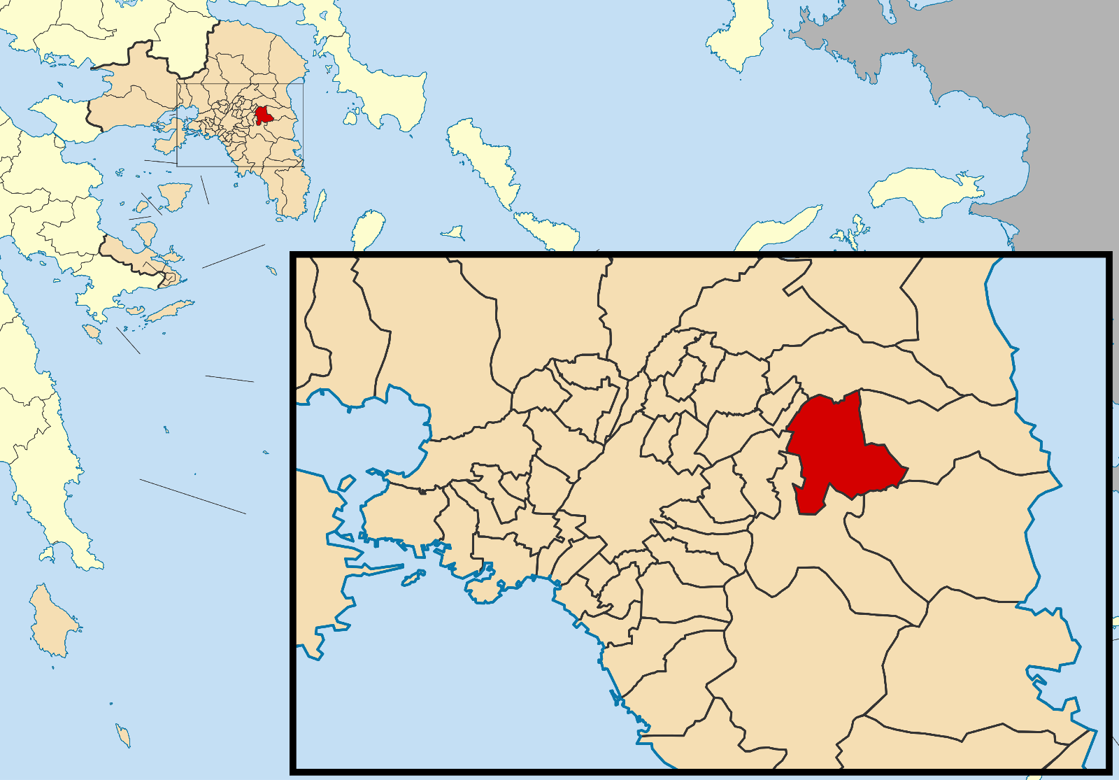 Locator map for Pallini municipality in Greek region Attica (2011)